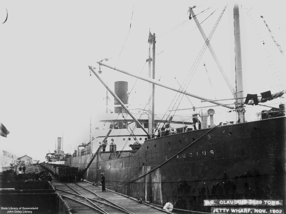 3,520 GRT cargo steamship Claudius at Jetty Wharf, November 1902. (Information inscribed on original photograph.)